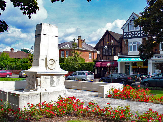 Cranleigh War Memorial Strikingly white monolith with rose garden at its foot. The shops behind are on the High Street, north side.